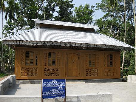 Momin Mosque after restoration